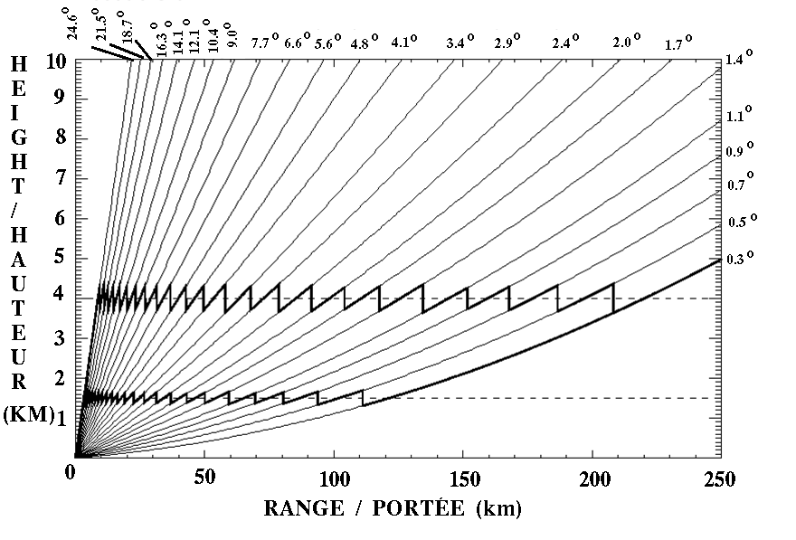 Trajectoiries at differents angles of the radar beam. This diagram is showing angles used by the Canadian Meteorological Service of Environment Canada.